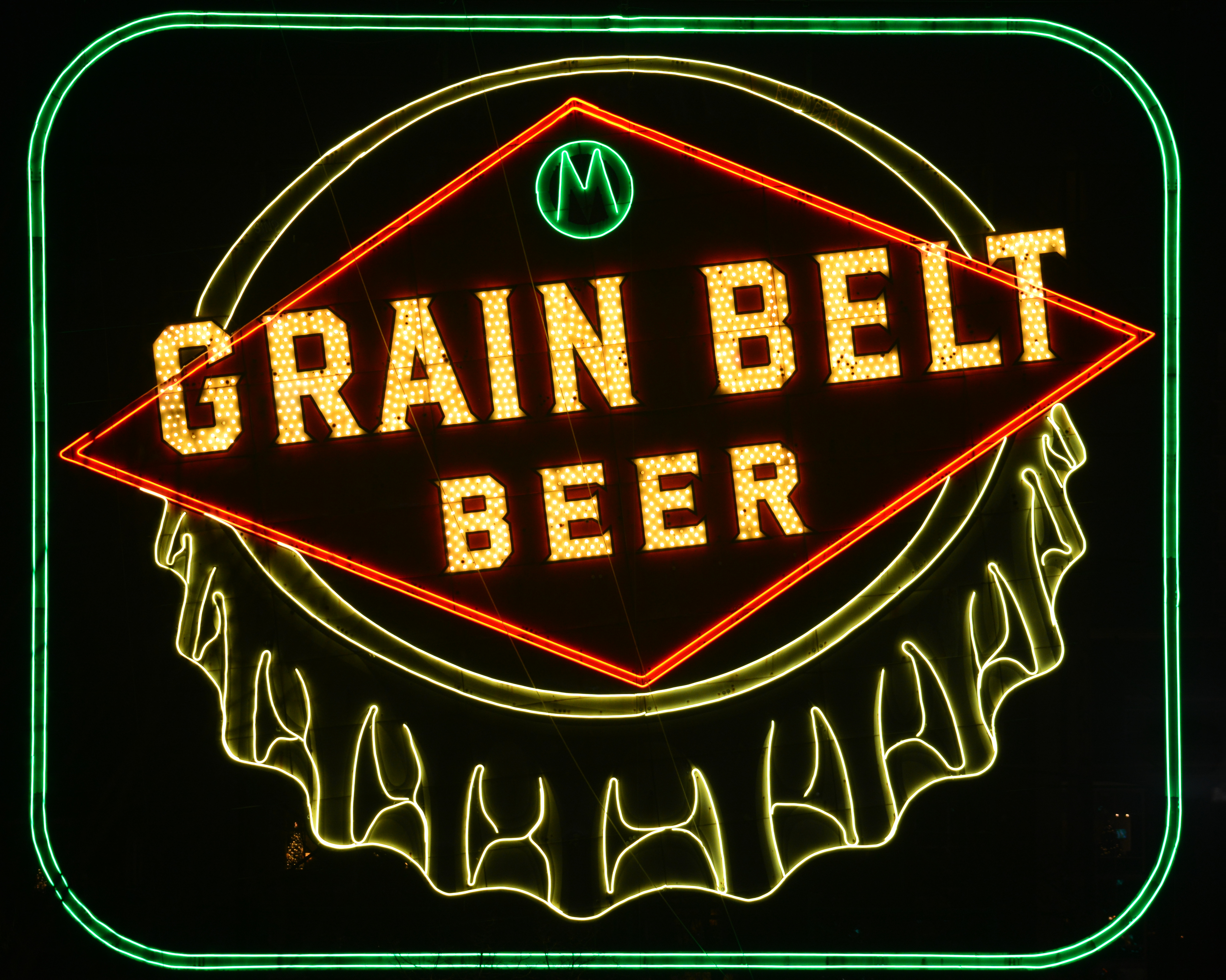 The historic Grain Belt neon sign in downtown Minneapolis, a few minutes after its ceremonial relighting following a multi-year restoration effort.